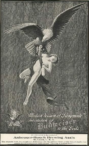 Ad campaign featuring Ganymede bringing Bud to the Gods, based on a drawing by F. Kirchbach. The original Anheuser-Bush ad as it appeared in the February 1906 issue of Theatre Magazine. The slogan on the sign reads: "Modern Version of Ganymede" Introduction of Budweiser Beer to the Gods.